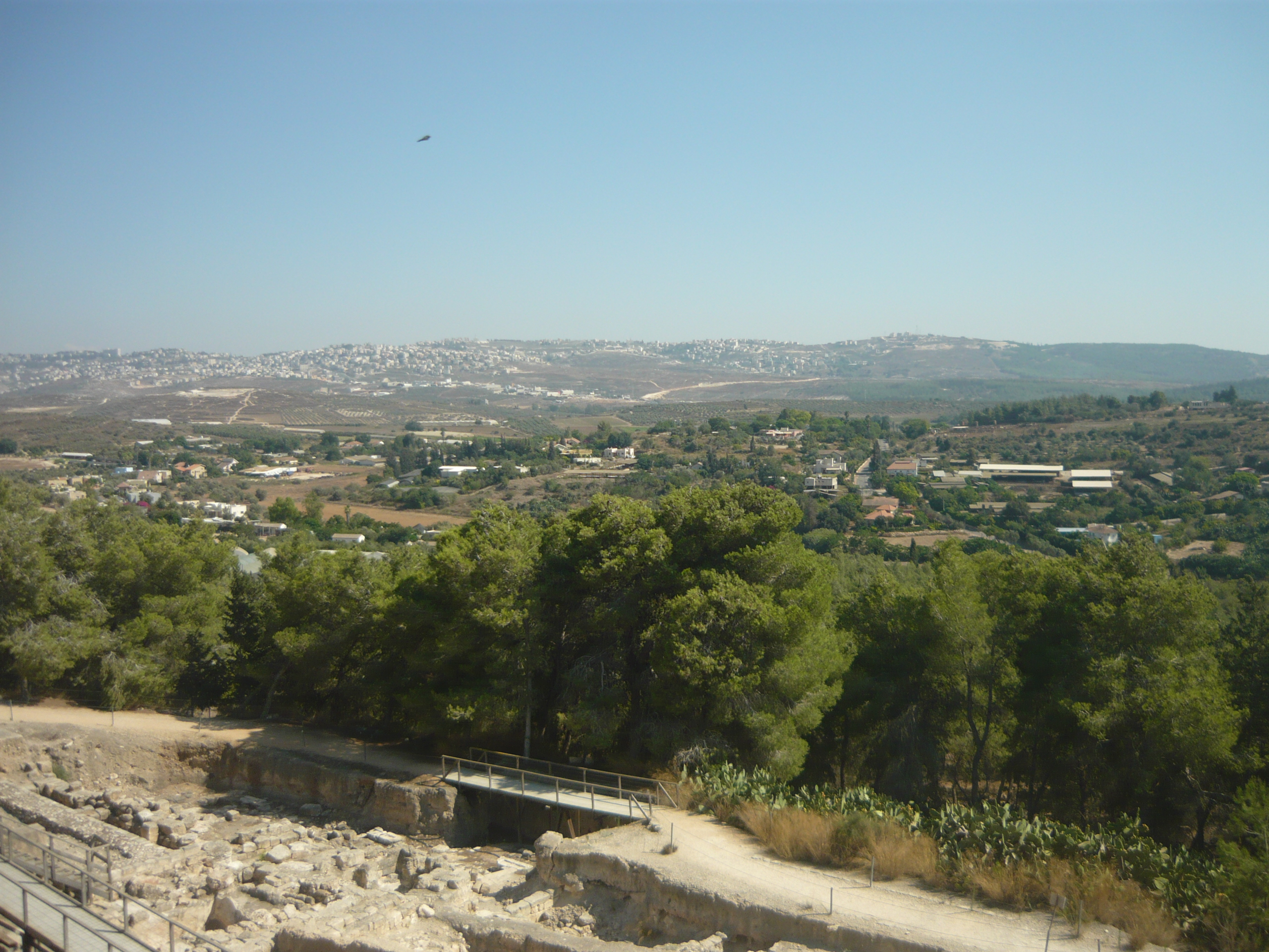 moshav Tzippori מושב ציפורי, מראה כללי מכיוון עתיקות ציפורי